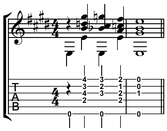 Blues turnaround